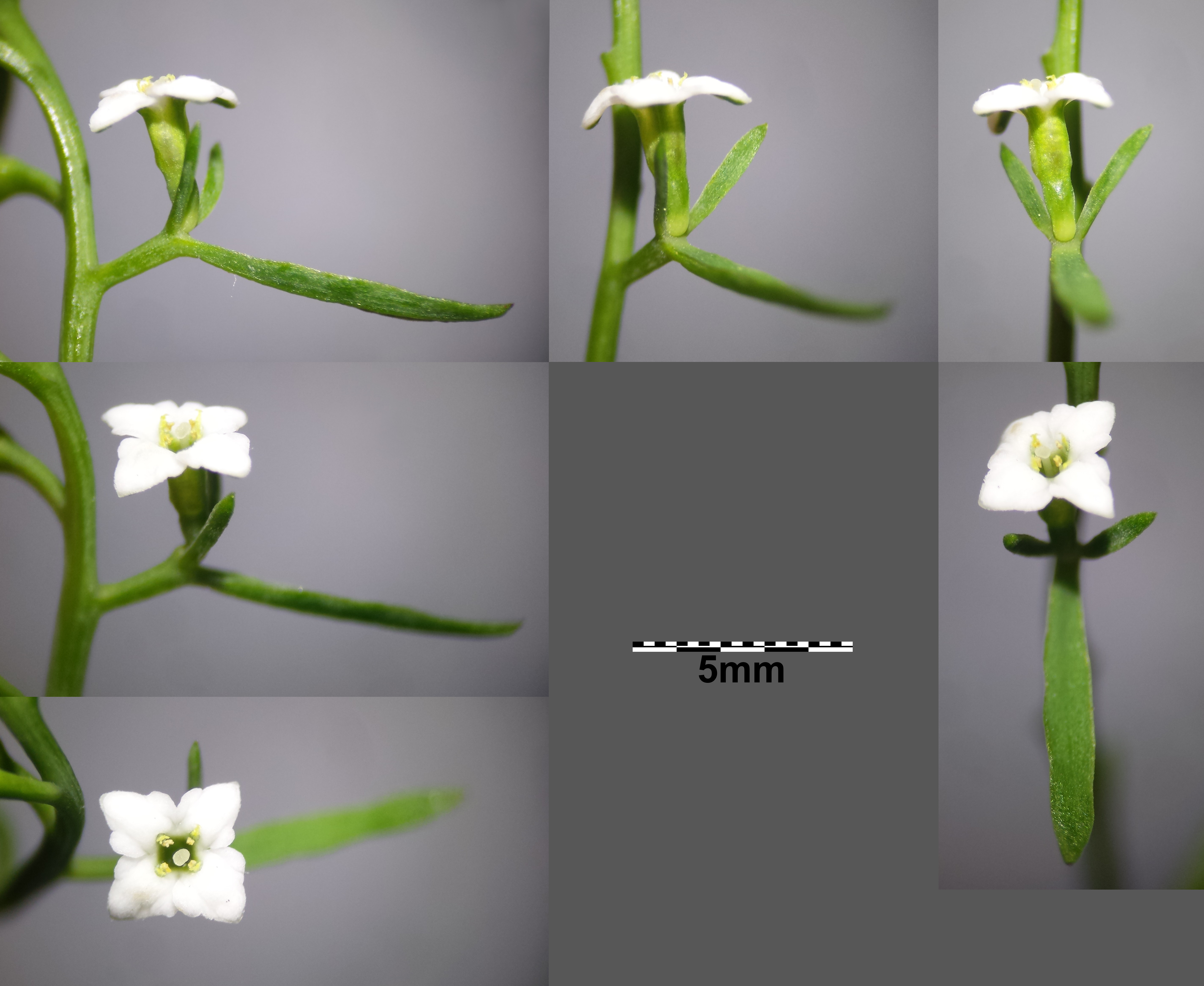 Flower Taxonym: Thesium alpinum ss Fischer et al. EfÖLS 2008 ISBN 978-3-85474-187-9 Location: near Puchberg am Schneeberg, district Neunkirchen, Lower Austria - ca. 860 m a.s.l. Habitat: carbonate rocks